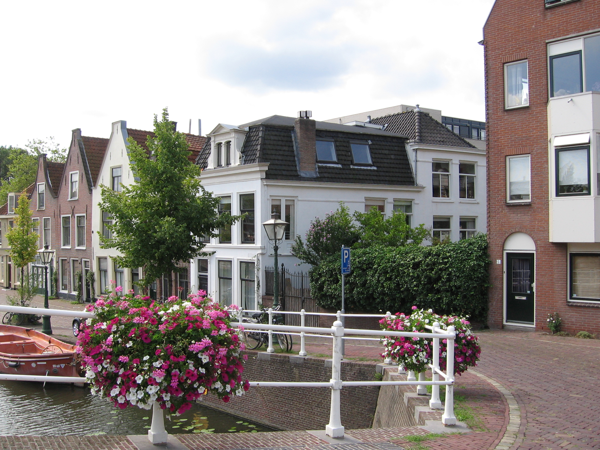 Nieuwe Mare 3, Leiden. Home of the Dutch lawyer, politician and later prime-minister Pieter Sjoerds Gerbrandy, 1911-1914